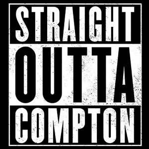 Logo for movie Straight Outta Compton